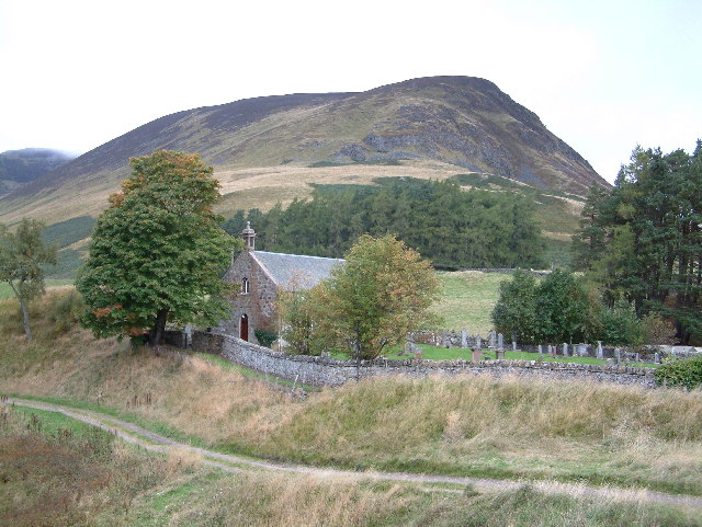 Ben Gulabin. With old kirk in the foreground (Spittal of Glenshee).